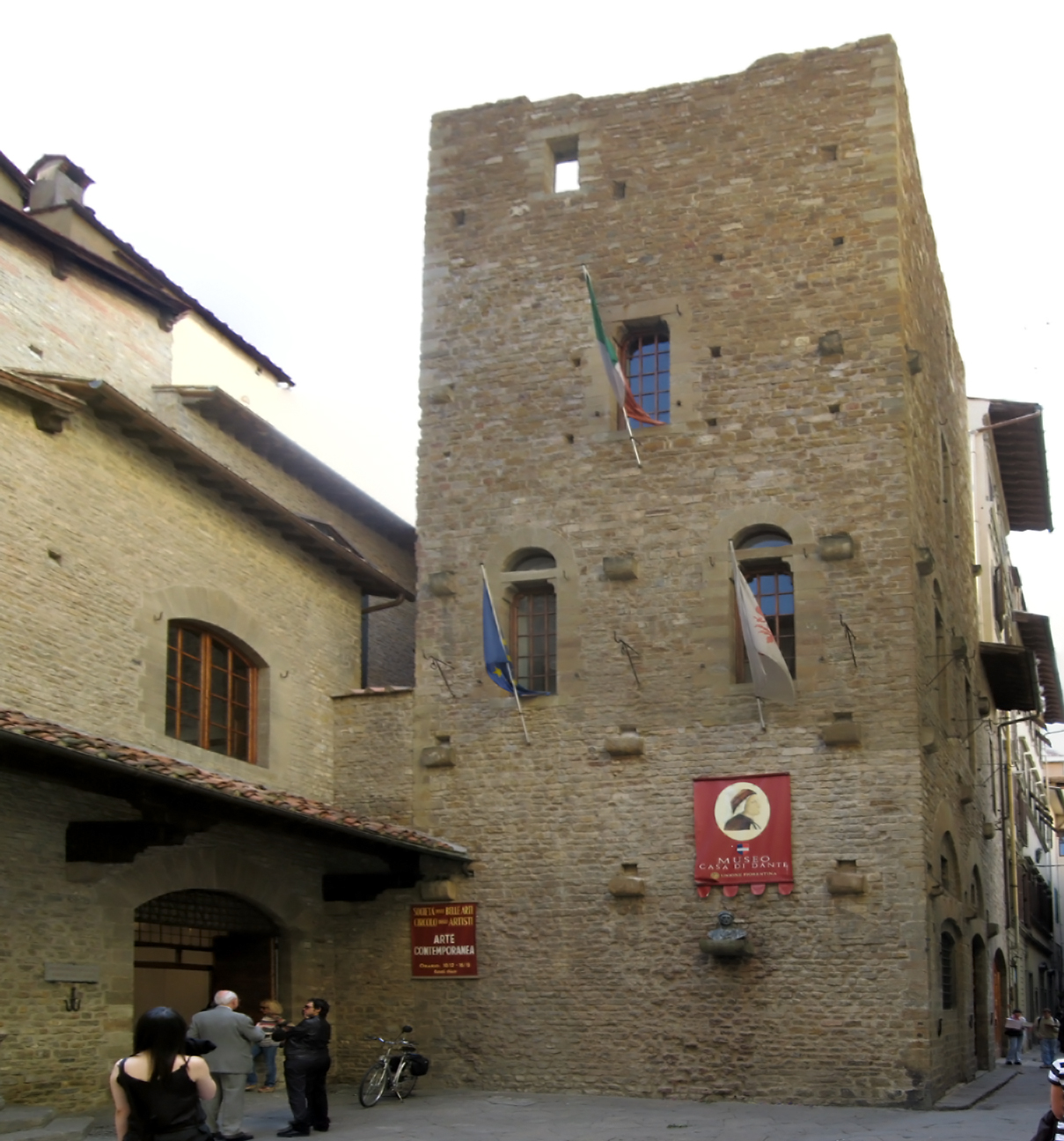 Dante's house in Florence, although it is not certain if he ever really lived here.